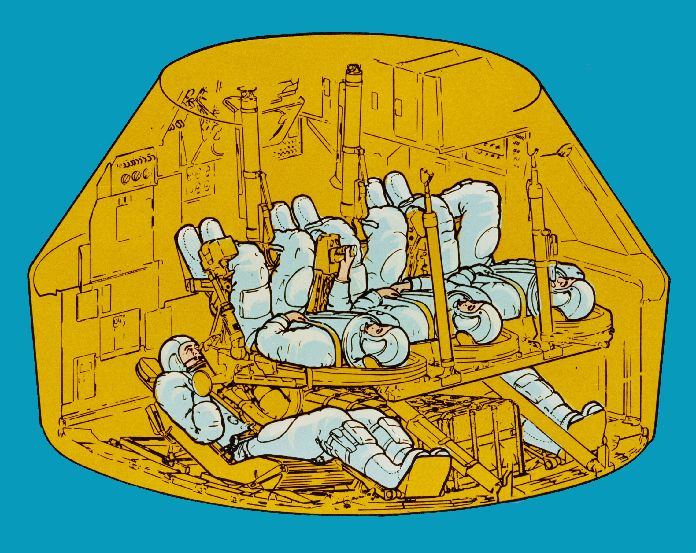 An artist's concept illustrating a cutaway view of the general arrangement of the Skylab Rescue Command Module (CM). The standard Skylab CM accommodates a crew of three with storage lockers on the aft bulkhead for resupply of experiment film and other equipment as well as the return of exposed film, data tapes and experiment samples. To convert the standard CM to a rescue vehicle, the storage lockers are removed and replaced with two crew couches in order to seat five crewmen. The rescue CM would then be launched with a crew of two.